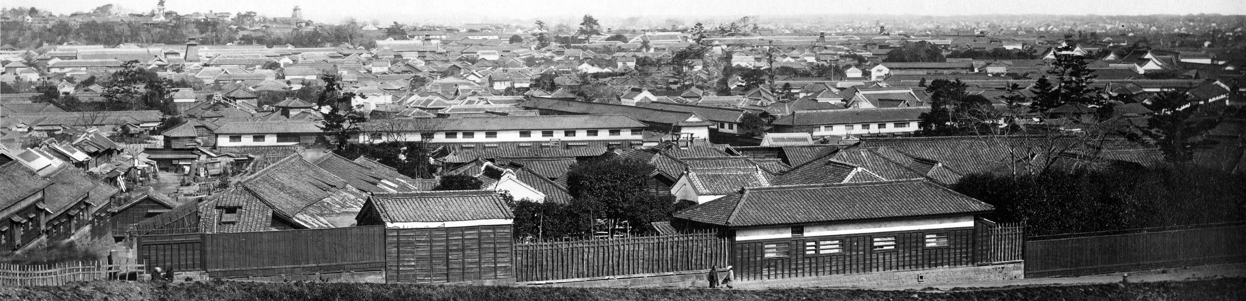 YEDO BAY. AFTER crossing the Logo, a ride of about three quarters of an hour brings the traveller in sight of what may be regarded as the entrance to Yedo, which lies encircling the head of a sickle shaped bay, with the small insular forts to the right, and many houses and temples, and gradually ascending heights well besprinkled with stately trees to the left, the suburb of Sinagawa, of questionable repute, is passed and the English Legation which lies close to the waters edge is reached. The meaning of the word Yedo is “River Mouth"—the bay itself is so shallow that large vessels cannot approach within three or four miles, and the view of it from the water scarcely gives the spectator an idea of its enormous extent, for its suburbs spread over a space of some twenty miles and are densely populated. Few capitals can boast so many striking features or so much beauty in its site and its surrounding country as this, for many leagues in every direction—and the charming rides through country lanes, even its very centre, shaded as they often are by trees of magnificent growth, from attractions which are unrivalled by any western city of corresponding size.